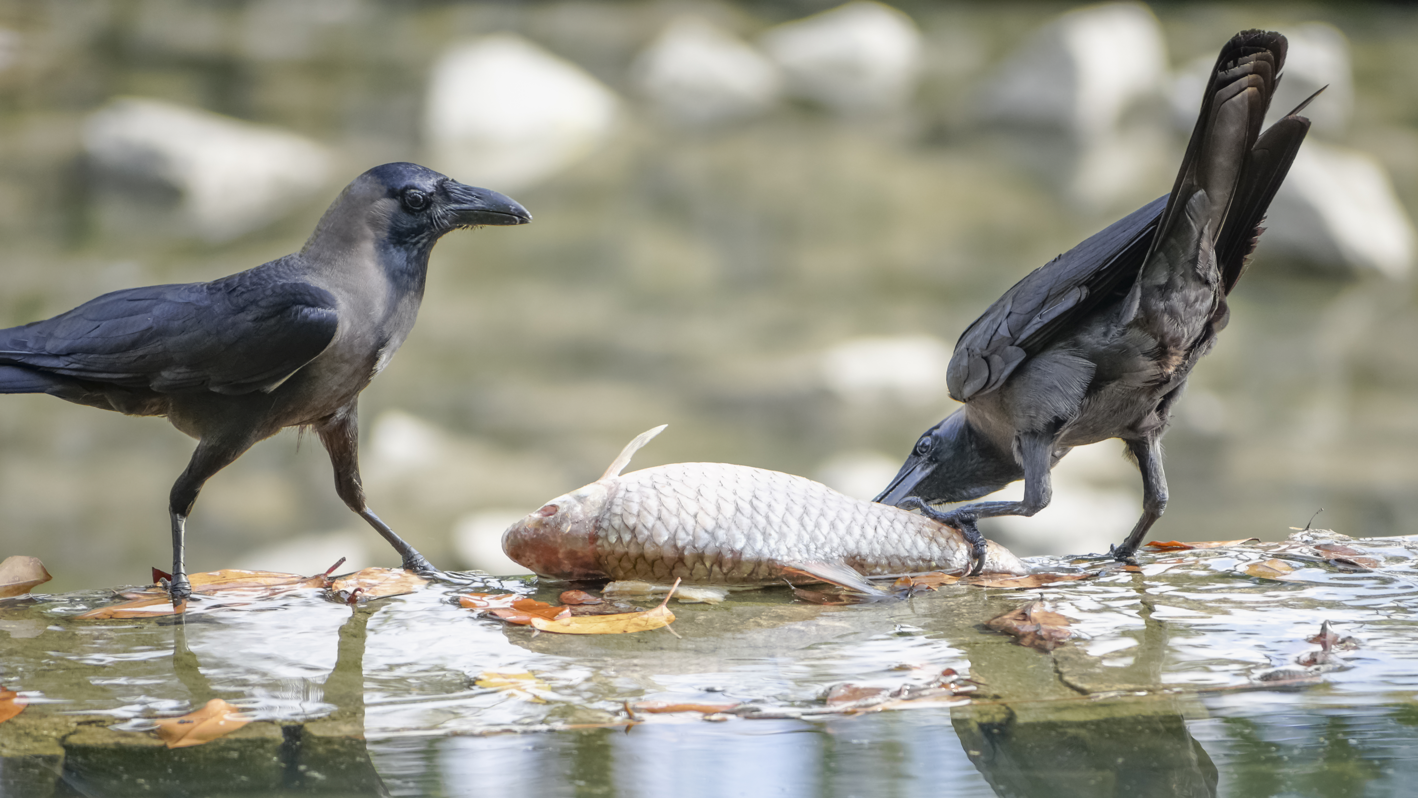 Two House crows (Corvus splendens feed on the carcass of a beached fish.